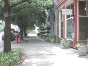 Main Street, Kingstree, South Carolina Image copyleft: Image taken by me, released under GFDL Pollinator 03:57, Jun 18, 2004 (UTC)